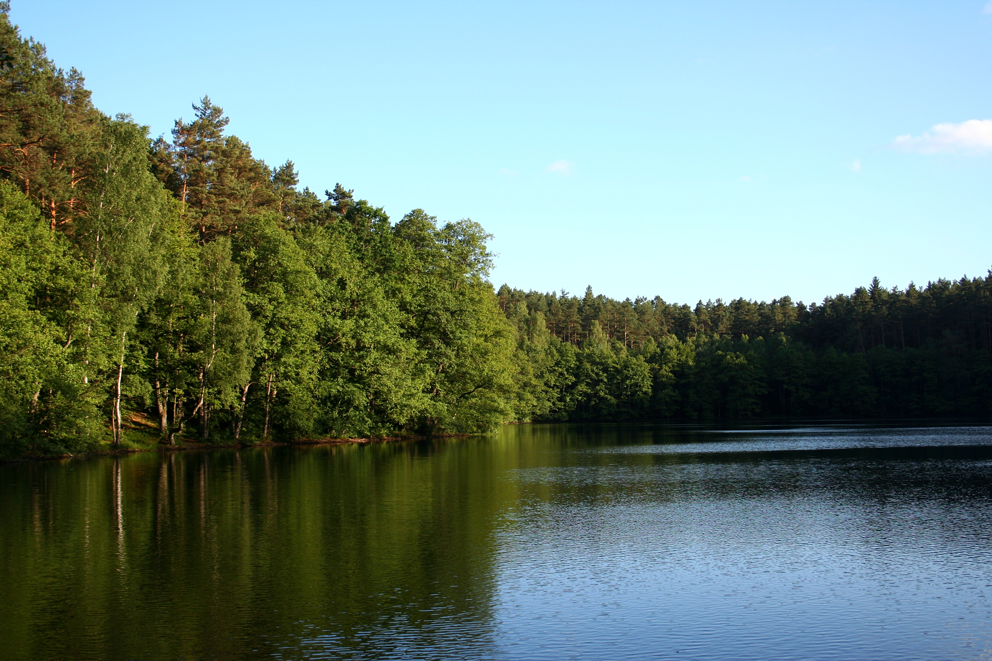 This photo of Kashubia, Pomerelia and Żuławy Wiślane was taken during Wikiekspedycja 2010 set up by Wikimedia Polska Association. You can see all photographs in category Wikiekspedycja 2010. The making of this document was supported by Wikimedia Polska.